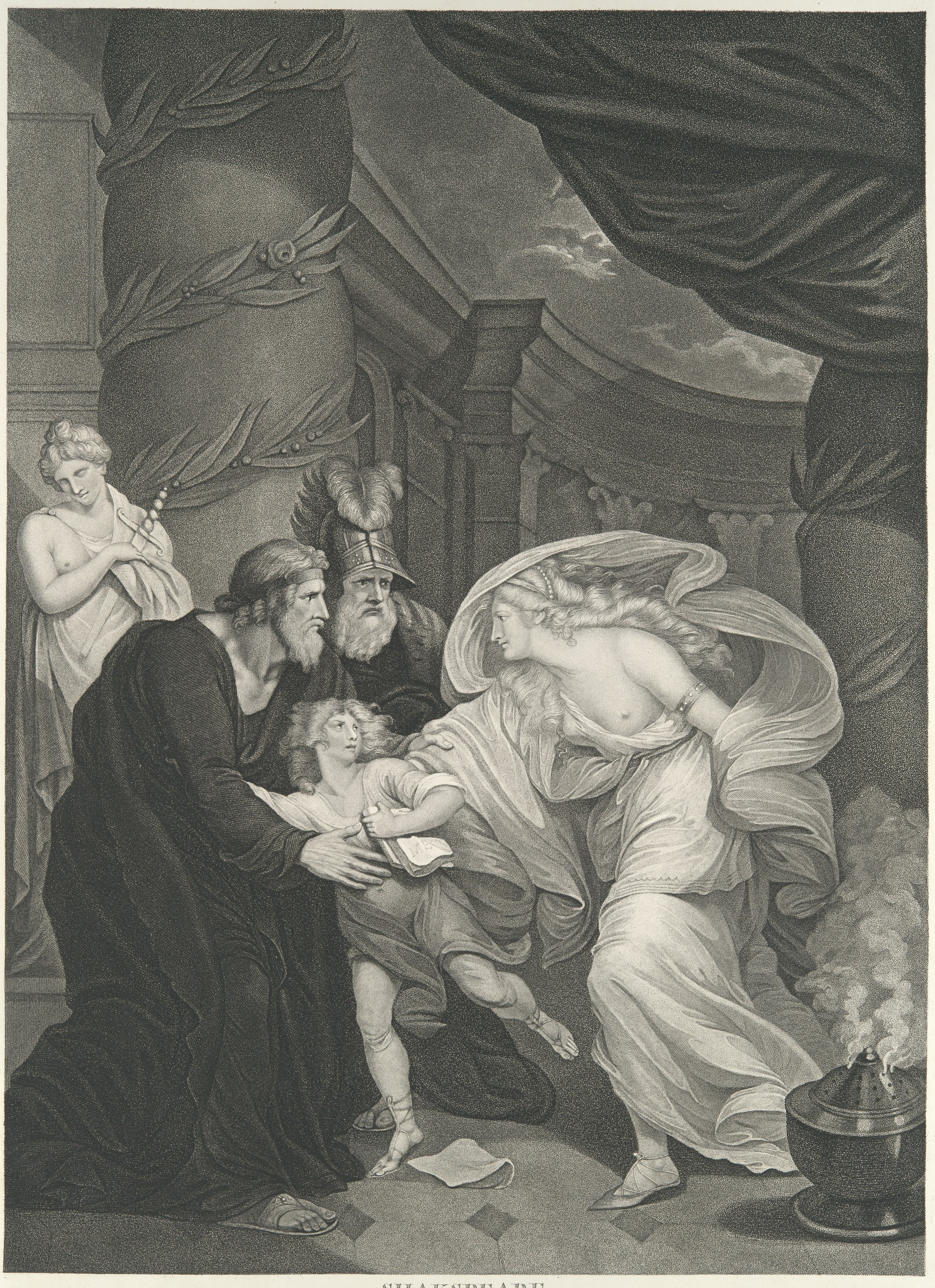 Print; Prints